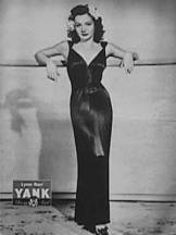 Pin-up photo of Lynn Bari for the Oct. 13, 1944 issue of Yank, the Army Weekly, a weekly U.S. Army magazine fully staffed by enlisted men.